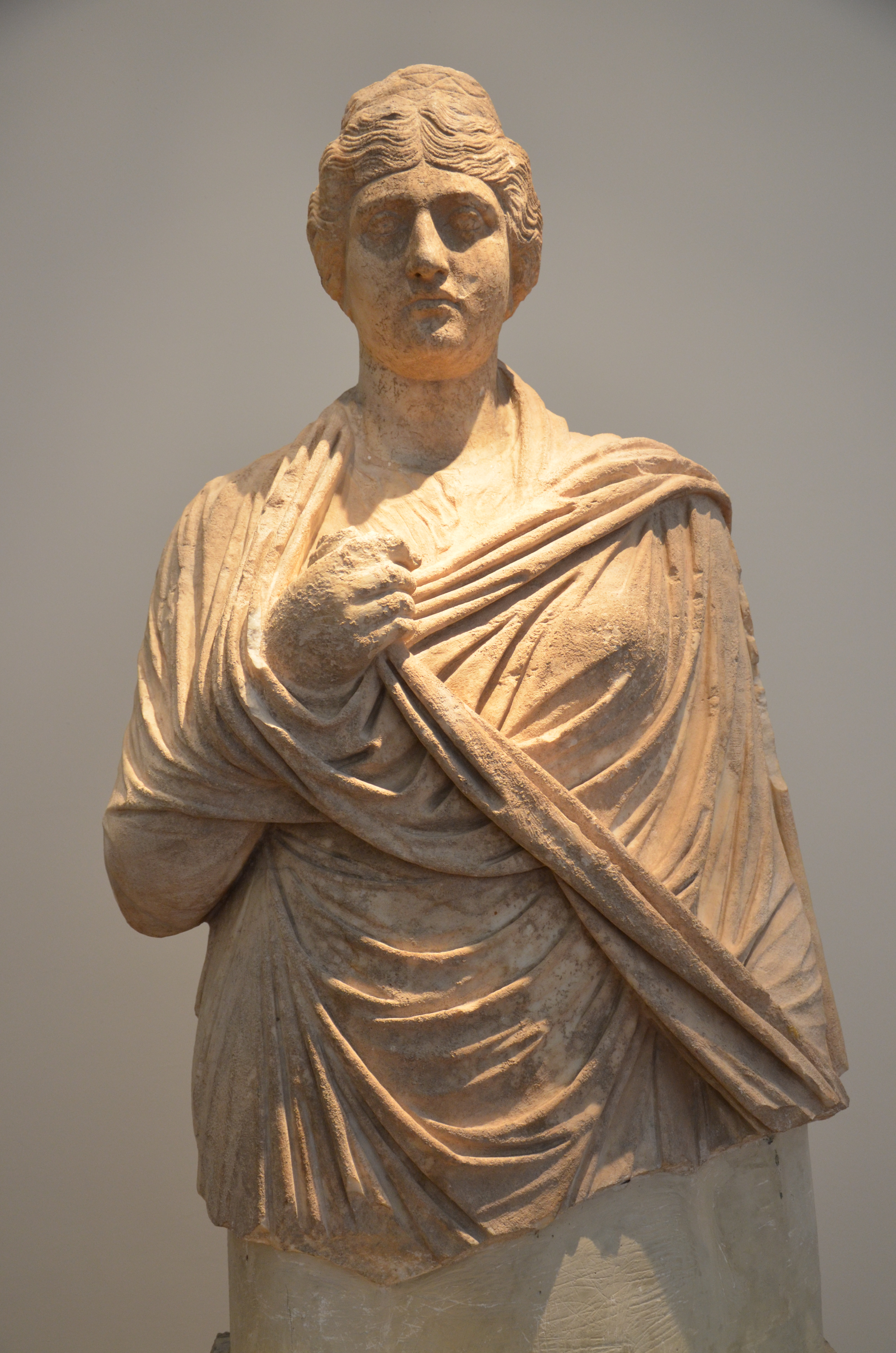 Statue of Faustina the Elder, wife of Antoninus Pius, from the Nymphaeum of Herodes Atticus at Olympia, dating from between 149 and 153 AD (posthumous), Olympia Archaeological Museum, Greece